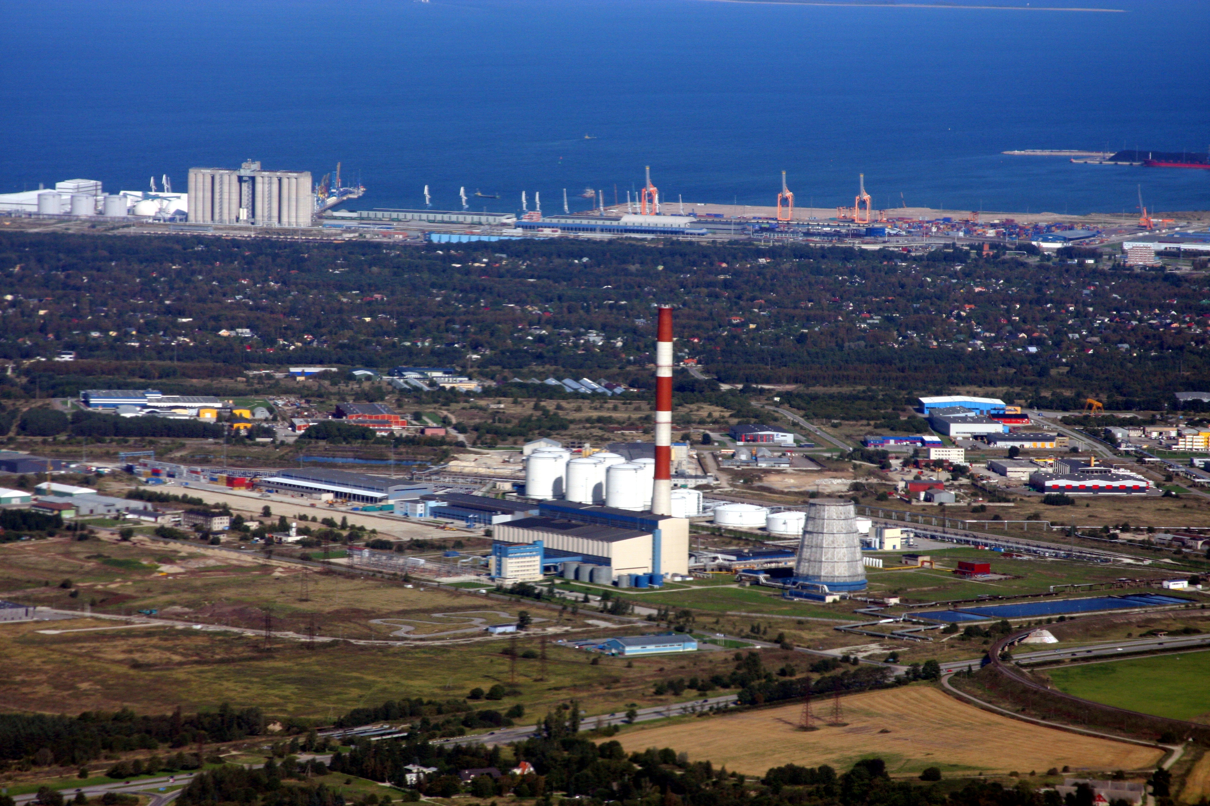 Iru power station, just east of Tallinn, Estonia.